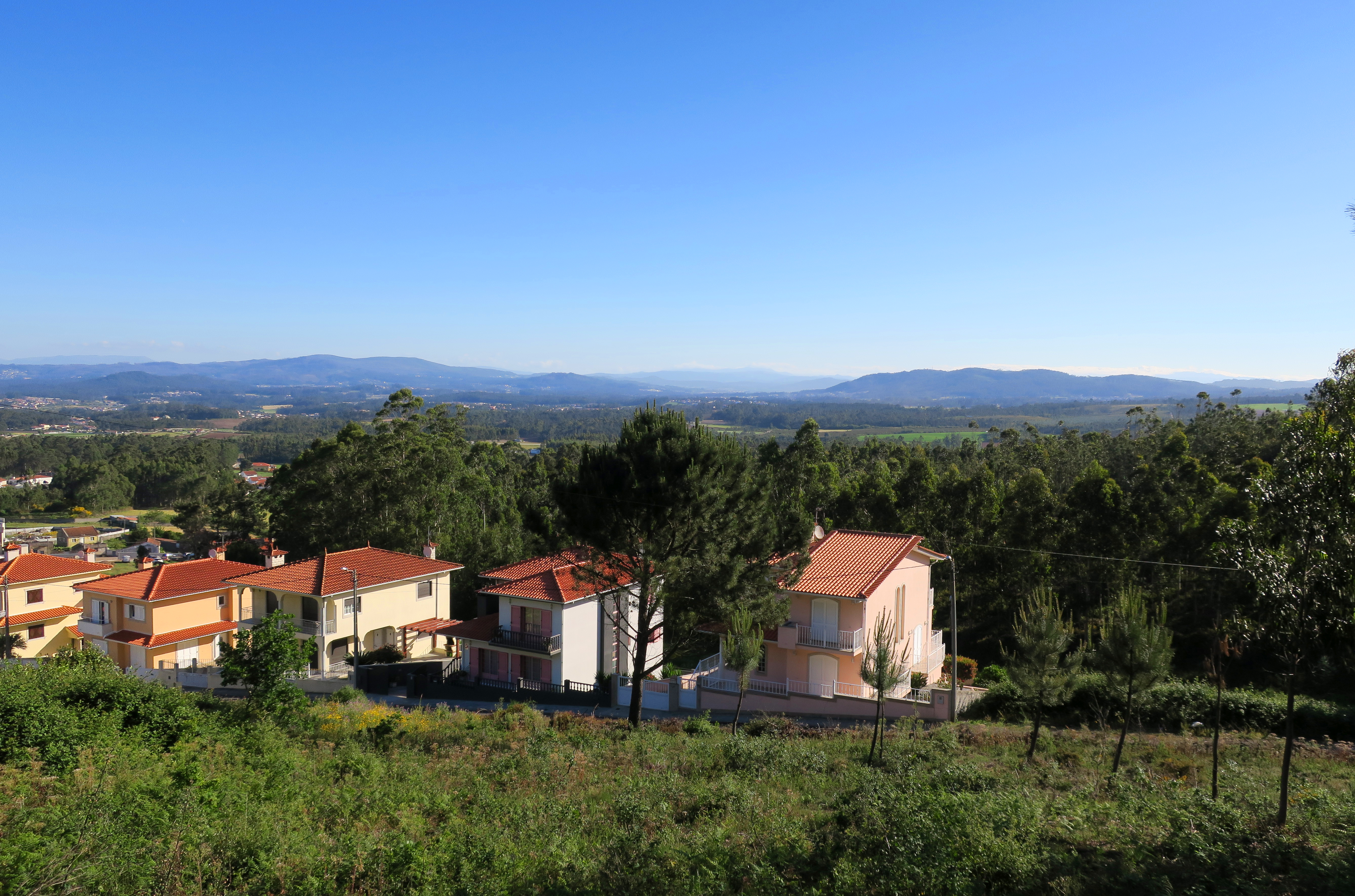 Inland valleys of the Municipality of Póvoa de Varzim